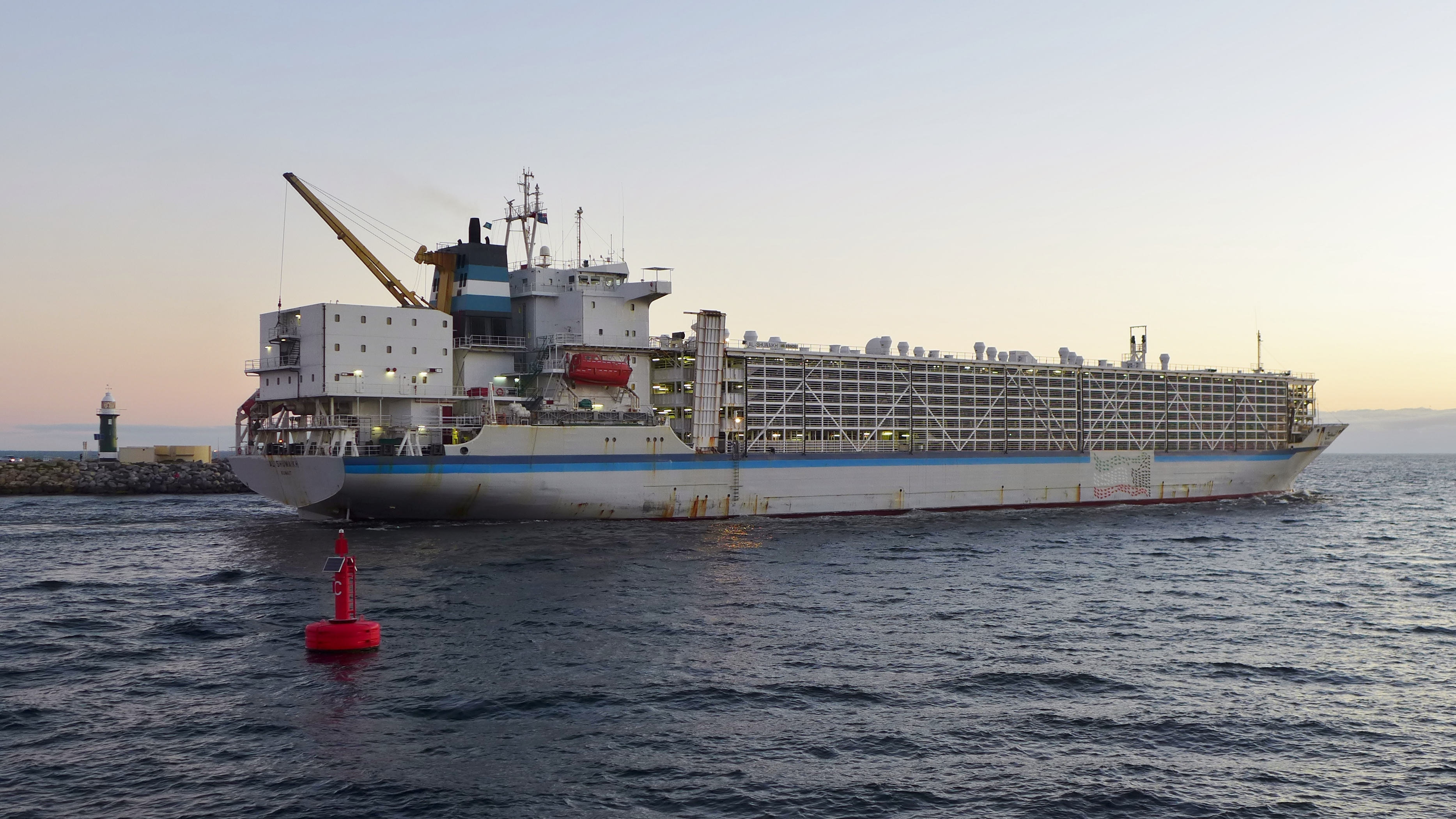 Livestock carrier Al Shuwaikh departing from Fremantle Harbour, Western Australia.